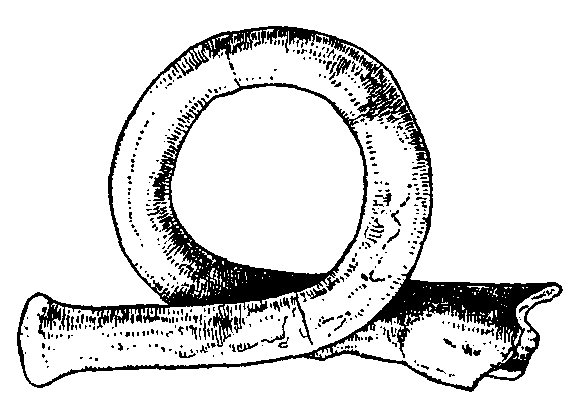 Terra Cotta Model of Roman Bugle, 4th cent. (British Museum). Added to the British Museum in 1904, this late Roman bugle is bent completely round upon itself to form a coil between the mouthpiece and the bell-end (the latter has been broken off). This precious relic was found at Ventoux in France and has been acquired from the collection of M. Morel. This is precisely the form of bugle now [1911] used as a badge by the first battalion of the King's Own Light Infantry. During the middle ages the use of the bugle-horn by knights and huntsmen, and perhaps also in naval warfare, was general in Europe, as the following additional quotations will show: "XXX cors bugleres, fait l'amirax soner". Cleaned version of scanned EB image taken from